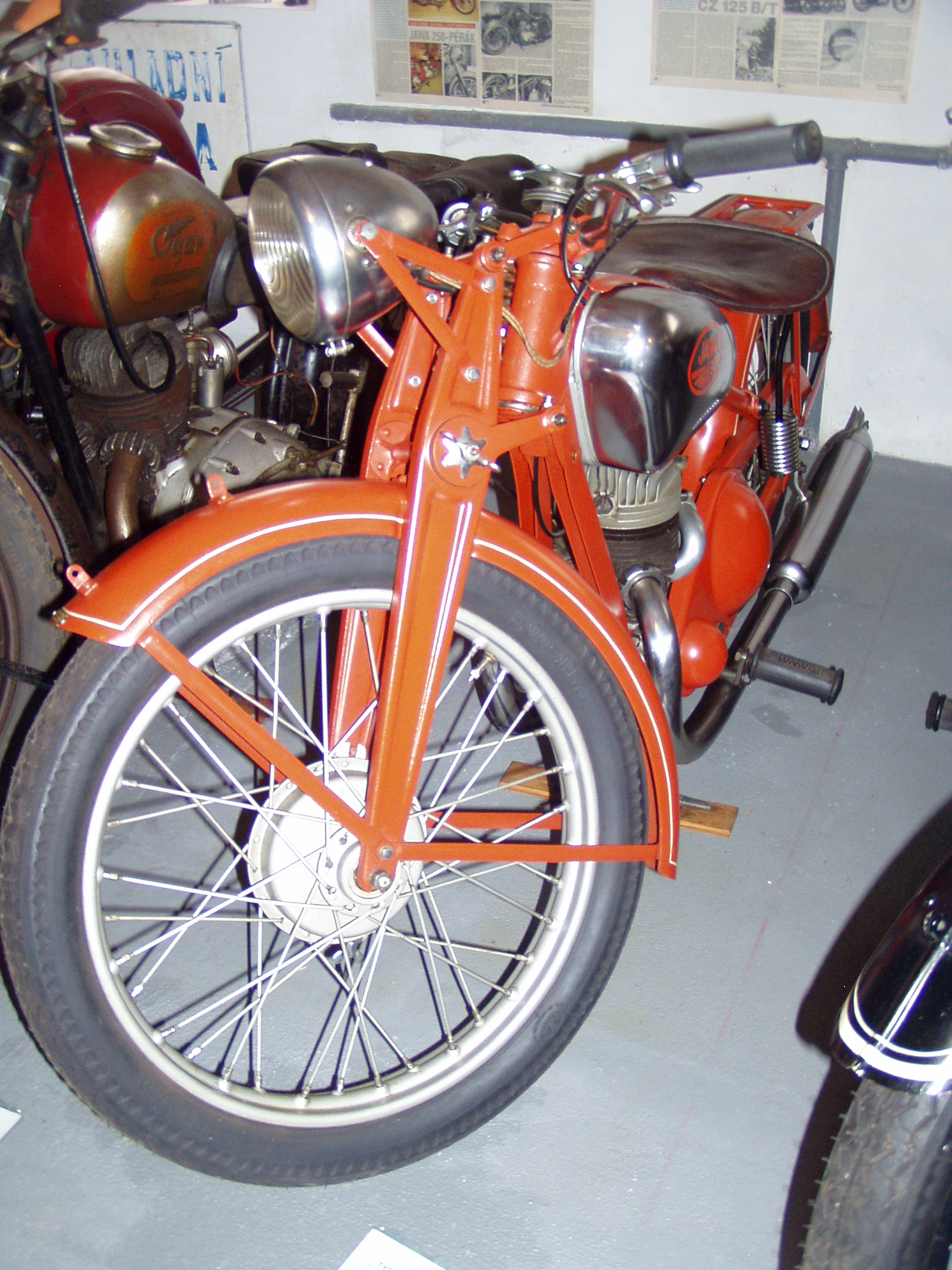 Jawa 175 Special (1938)